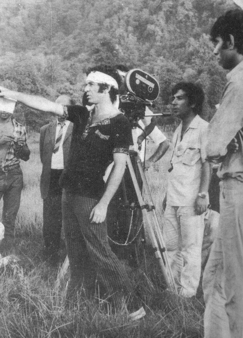 Dariush Mehrjui (director), Houshang Baharlou behind the scenes in "Postchi" (Film), 1972.